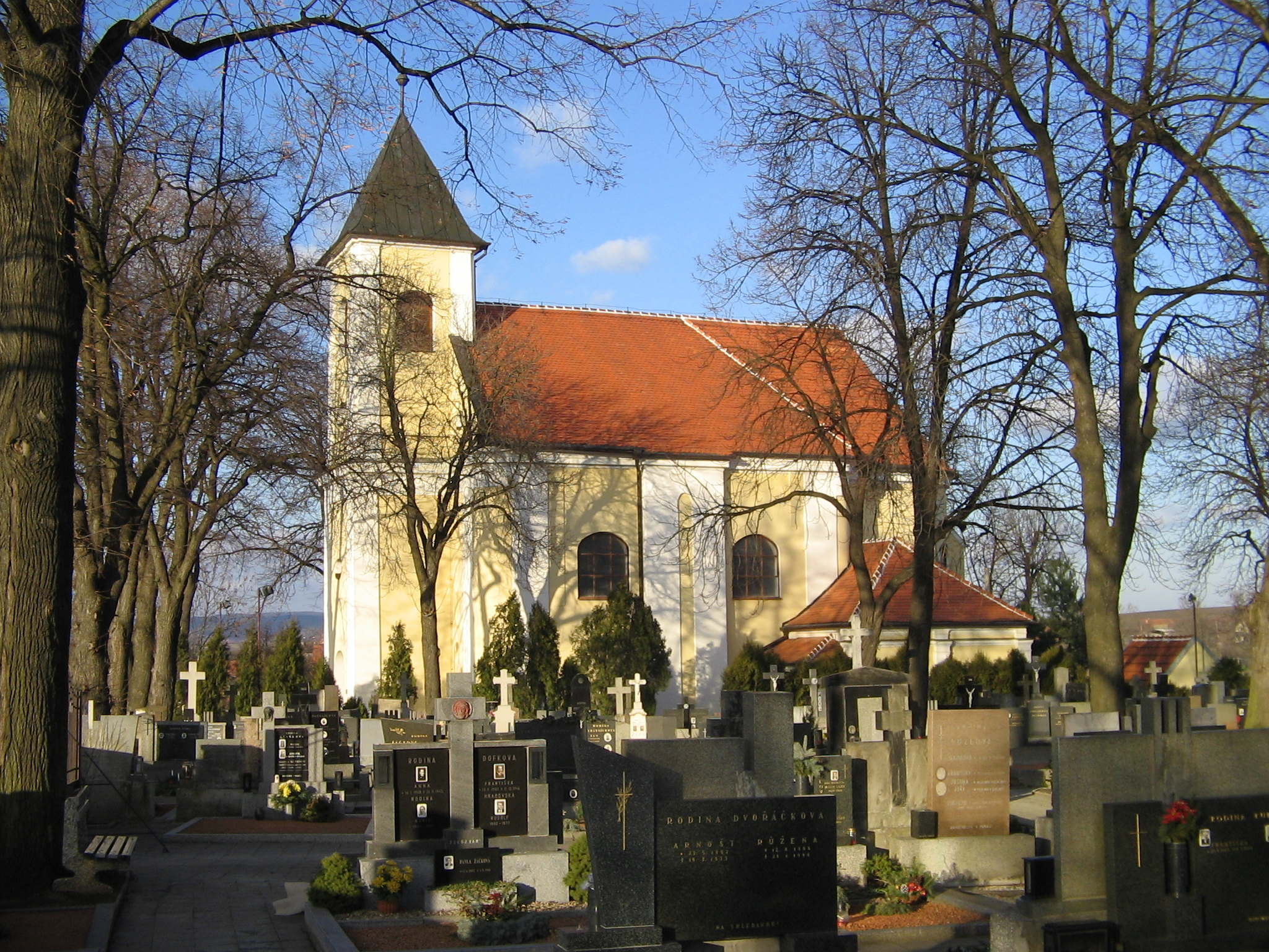 Church of the Elevation of the Cross in Prace